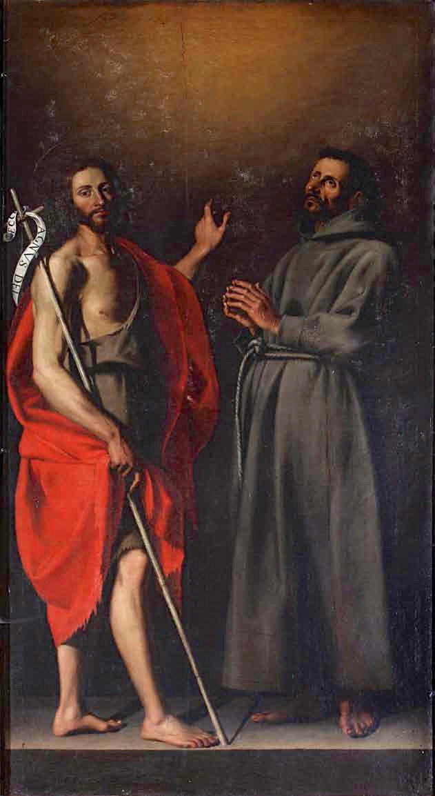 Vincenzo Manenti, Saint John the Baptist and Saint Francis, c. 1635-40